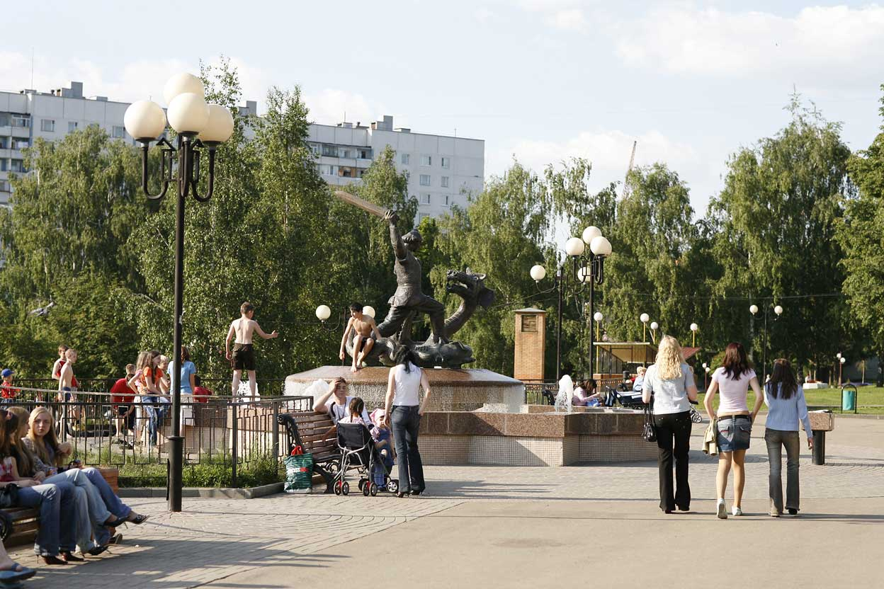 Vidnoe fountain 2